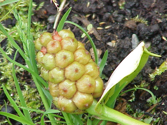 Species: Calla palustris Family: Araceae Image No. 1